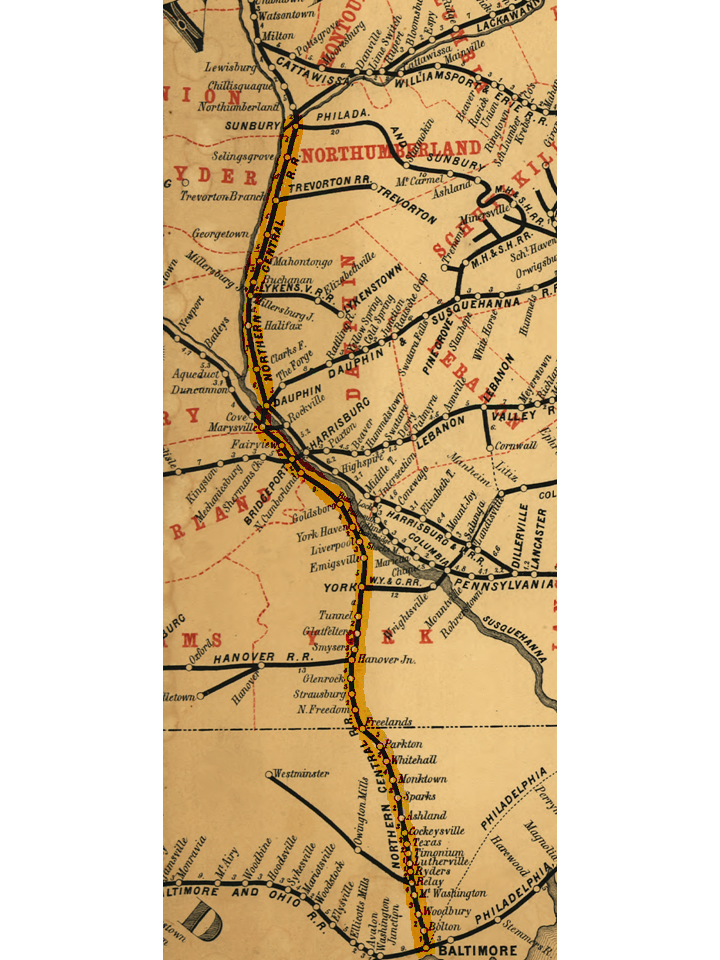 Map of Northern Central Railway. The railroad came under the control of the Pennsylvania Railroad in 1861. Original map cropped and NCRY line highlighted.